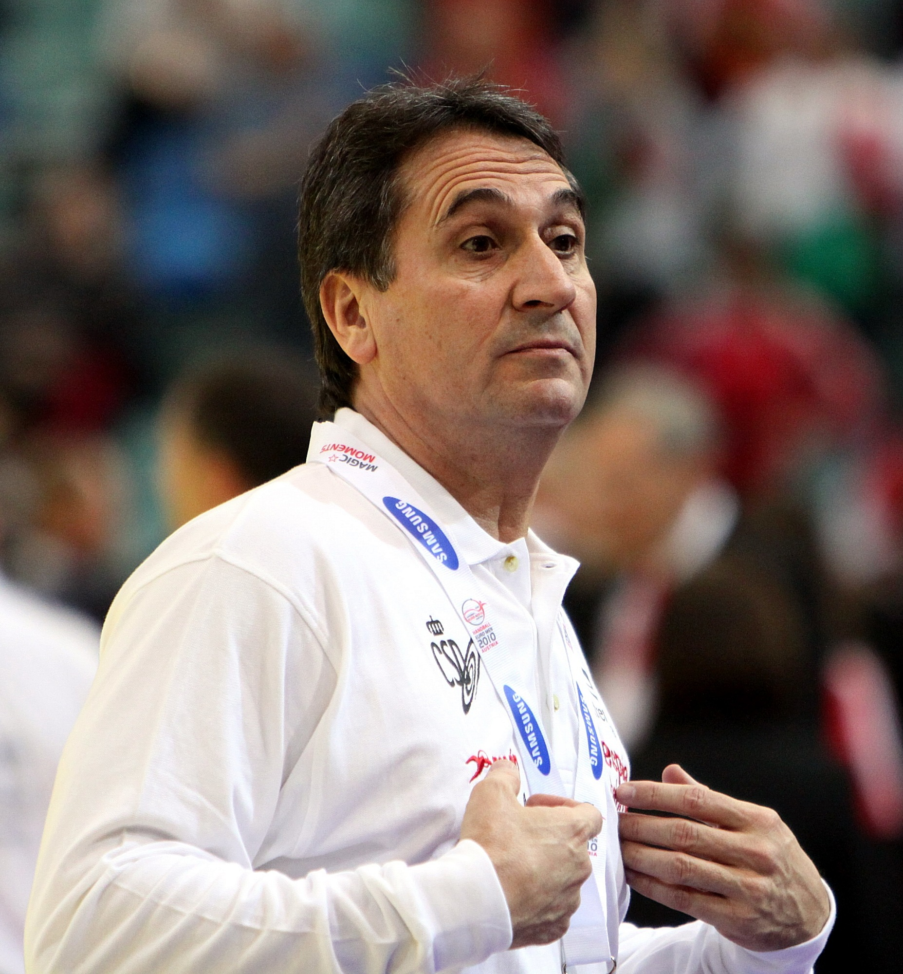 Valero Rivera (Teamchef), Spain national handball team